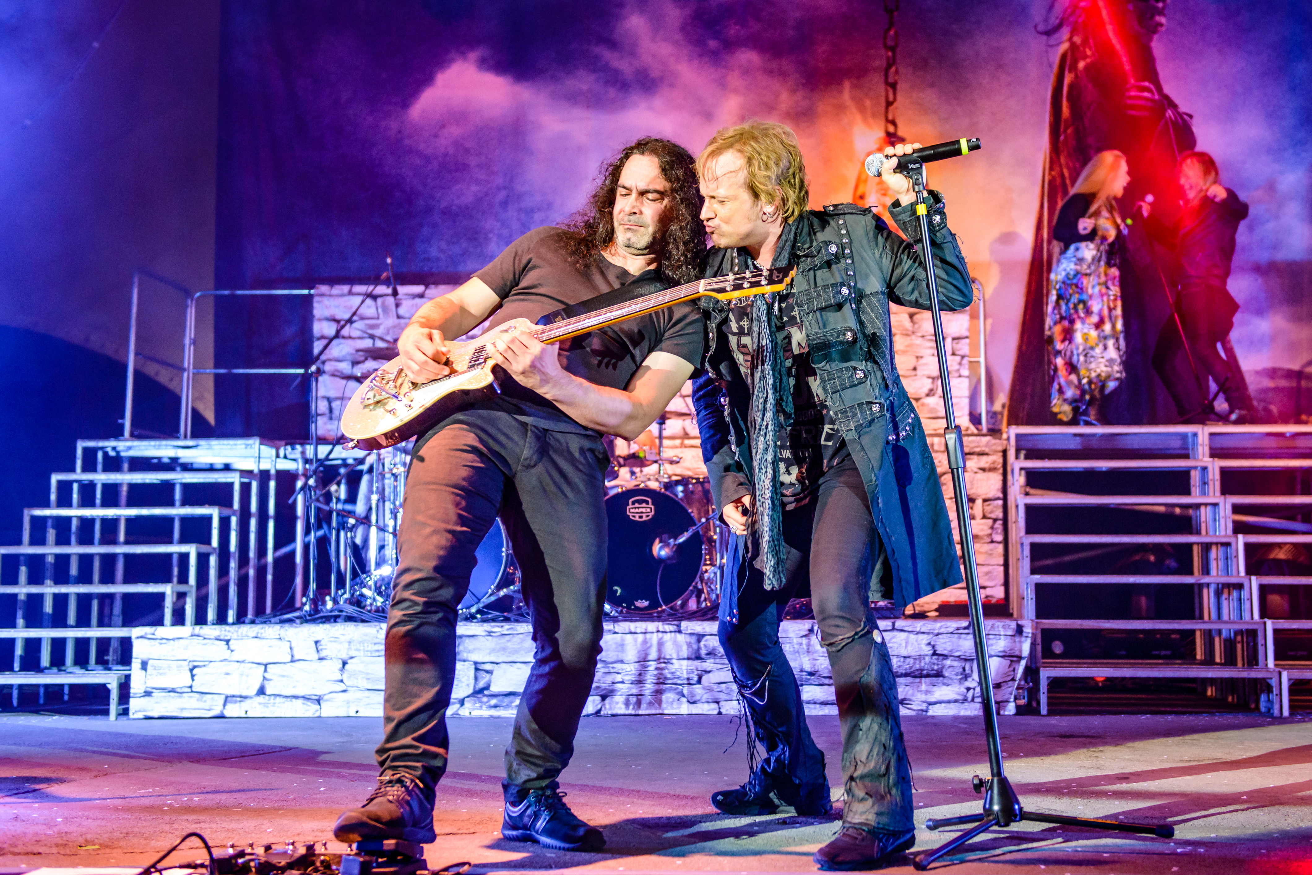 Avantasia; RockFels 2016 - Loreley